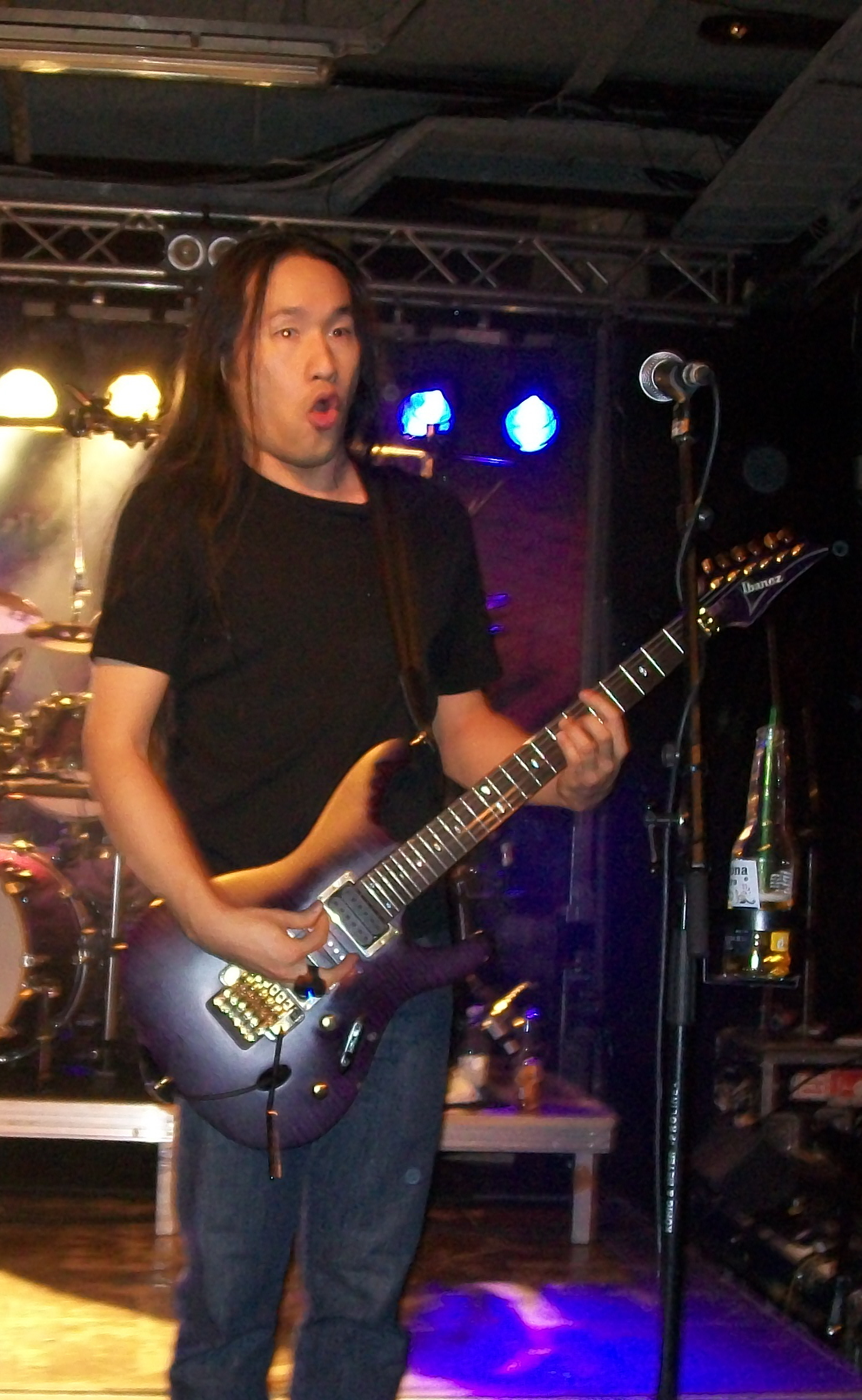 Herman Li at Club Teatria